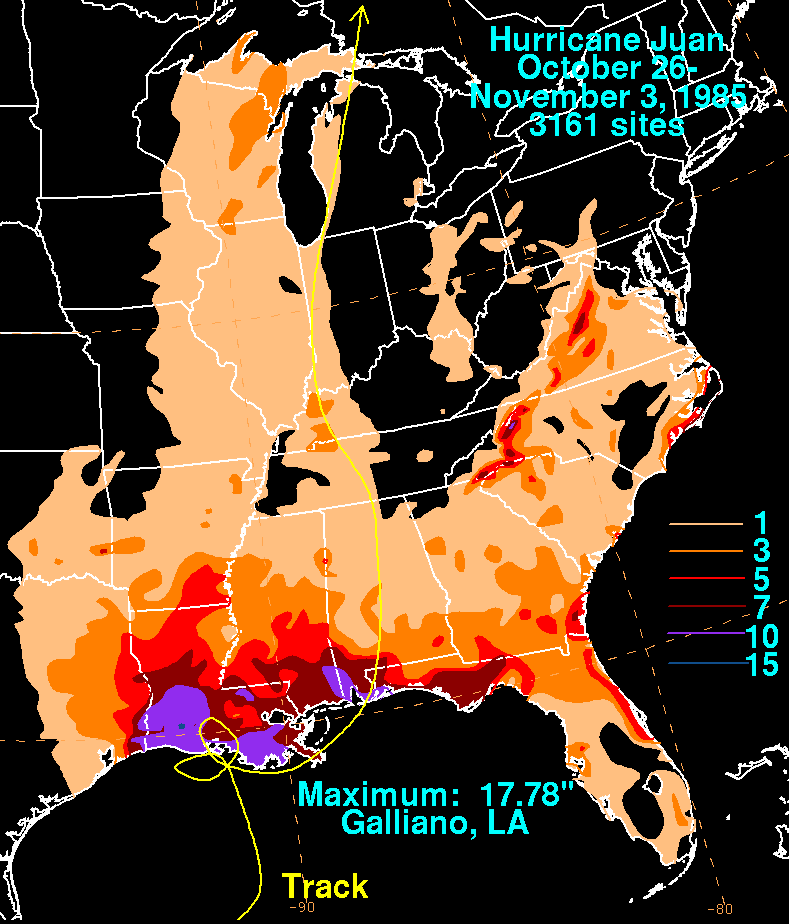 Storm total rainfall map of Hurricane Juan during October and November 1985.